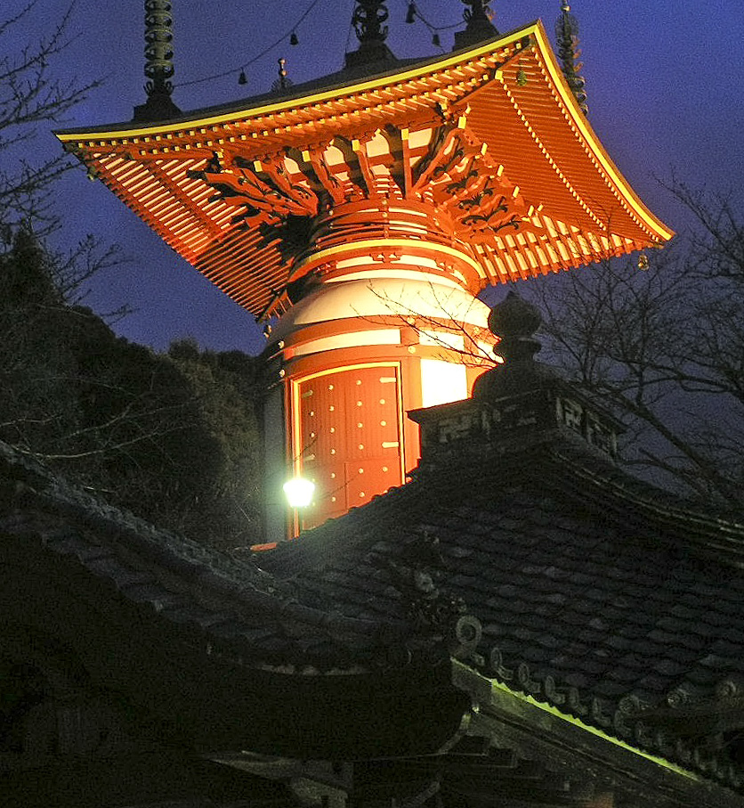 yakuouji薬王寺２００６．１．３ - A hōtō, or a pagoda with a single story and a single roof.